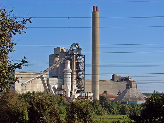 Aberthaw Cement Works from the west This shows No.6 Kiln system. Left to right: rawmill building, kiln feed silos, 4-stage suspension preheater tower, rotary kiln (horizontal cylinder behind the stack), and the conical clinker store.